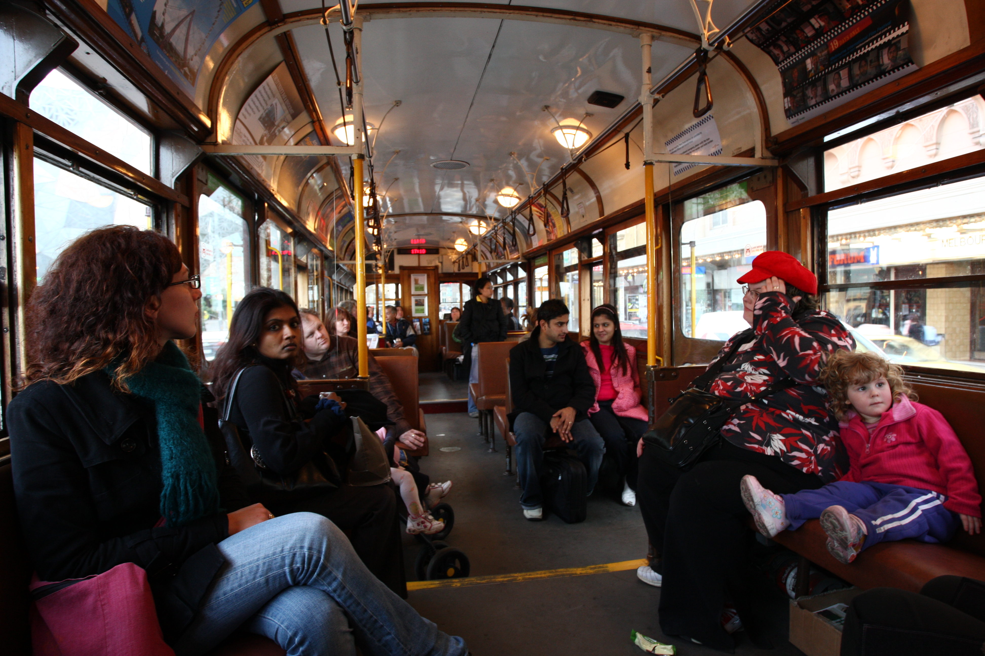 Interior of a W Series tram in Melbourne. This particular tram was in City Circle service.